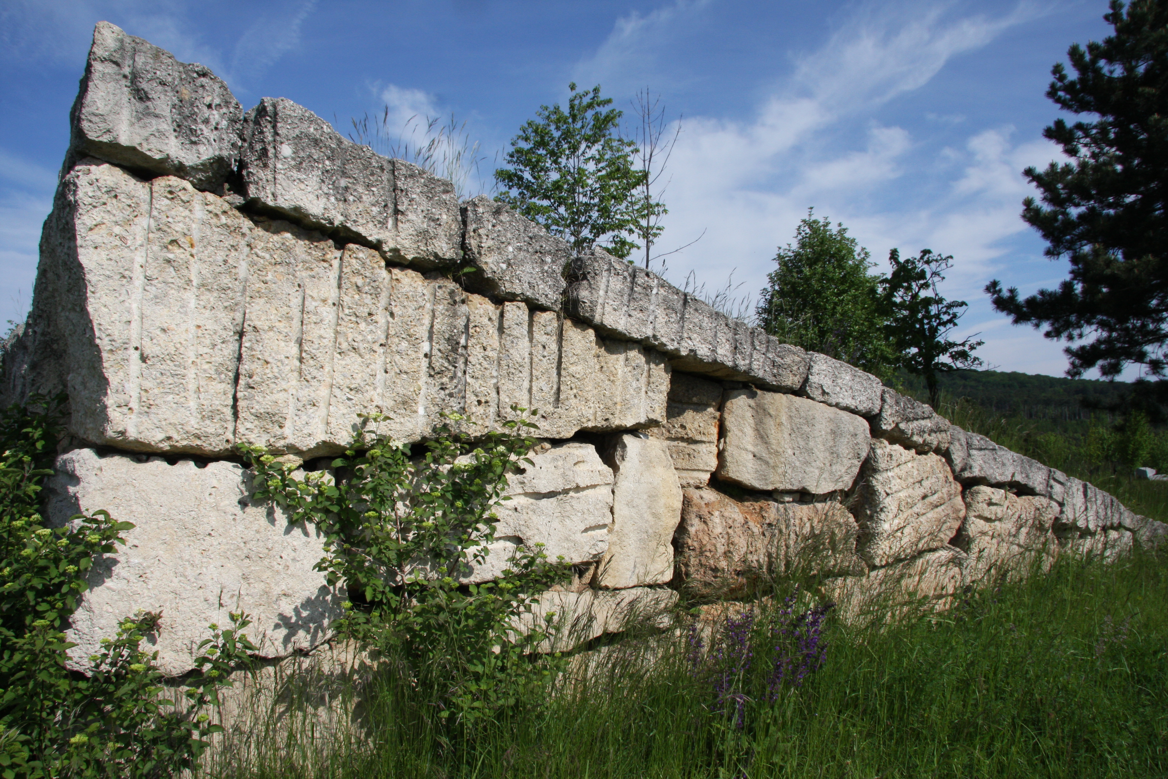 Conglomerate from Lindabrunn: "The Wall" situated in the Skulpturenpark, Symposion Lindabrunn